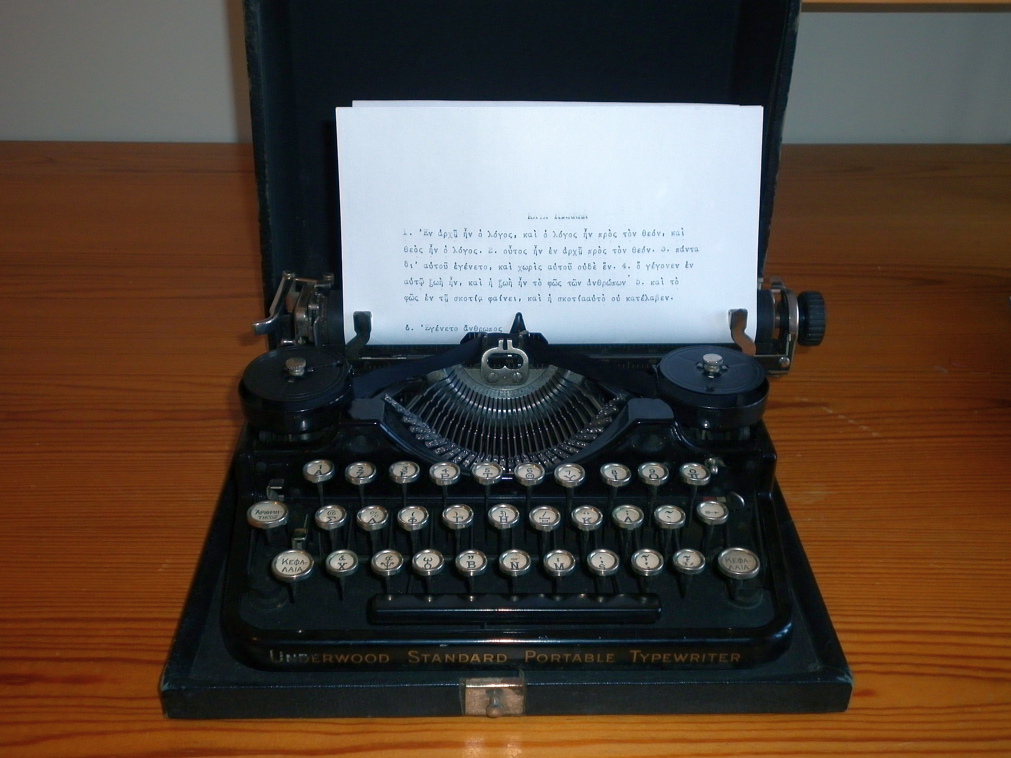 Underwood Portable 3 Banks typewriter with Greek keyboard. Made in USA in 1921. Its keys have three banks of characters (hence the name) to accomodate almost all Greek letters, accents and breathings. (Private collection)